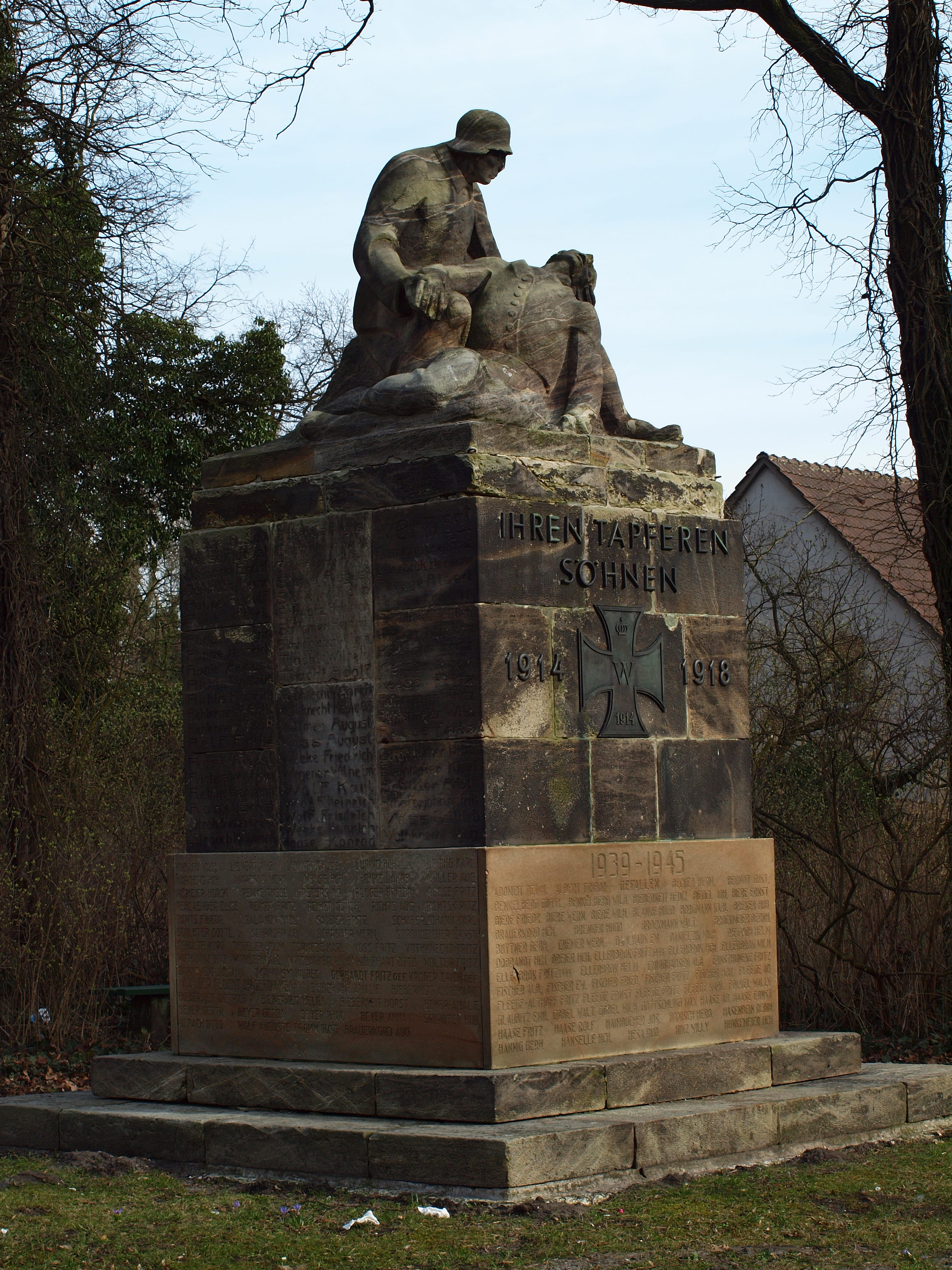 The fallen memorial in the honorary grove in Schlangen